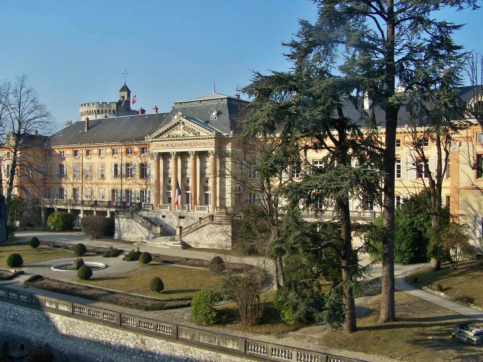 Aile du Midi building of current Préfecture and Conseil général administrative services of French department of Savoie, in Chambéry.